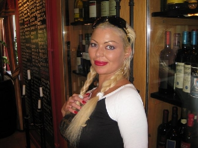 Monique Covet 2010